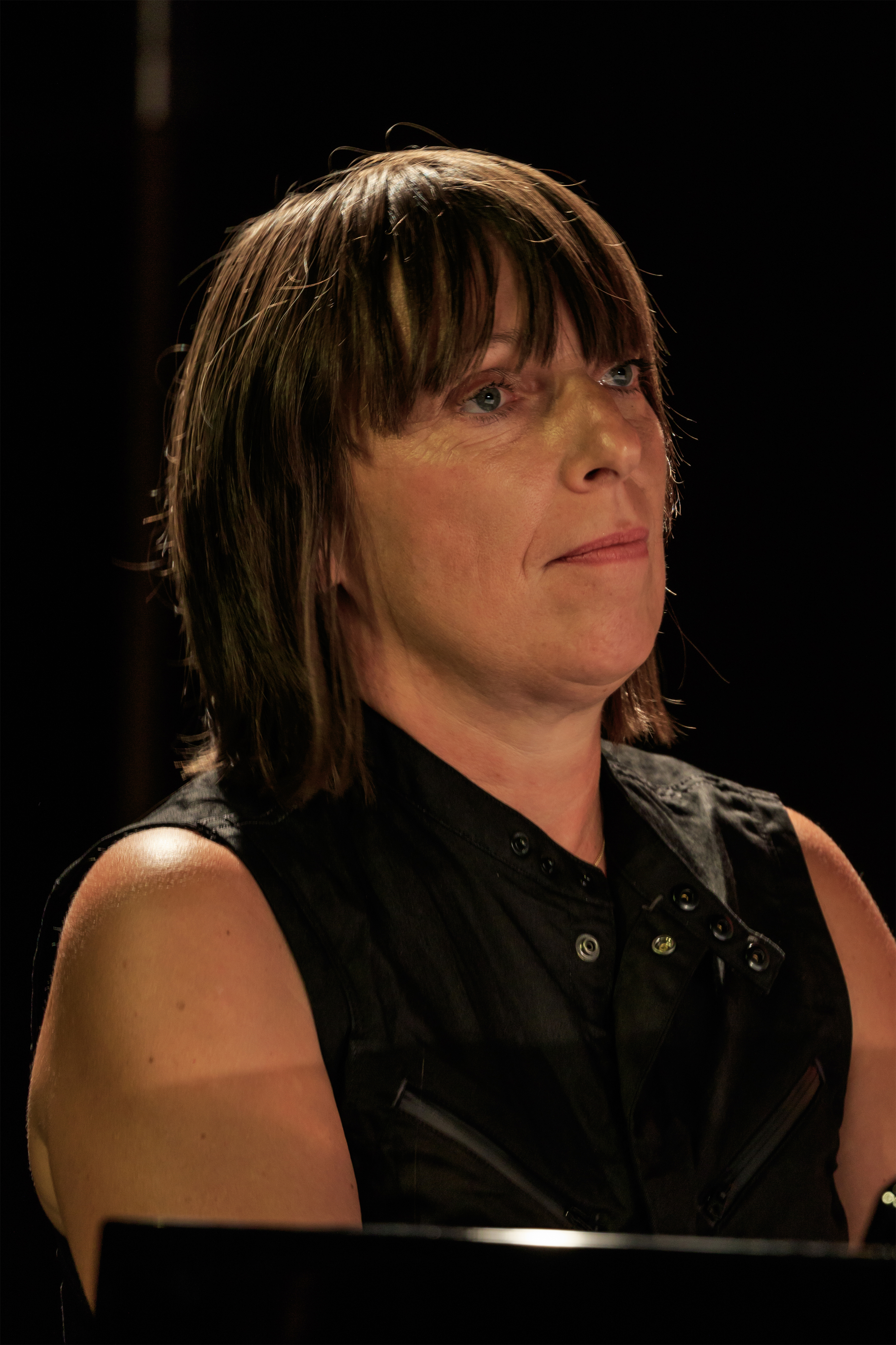 Photo of Maria Baptist, a jazz pianist from Germany